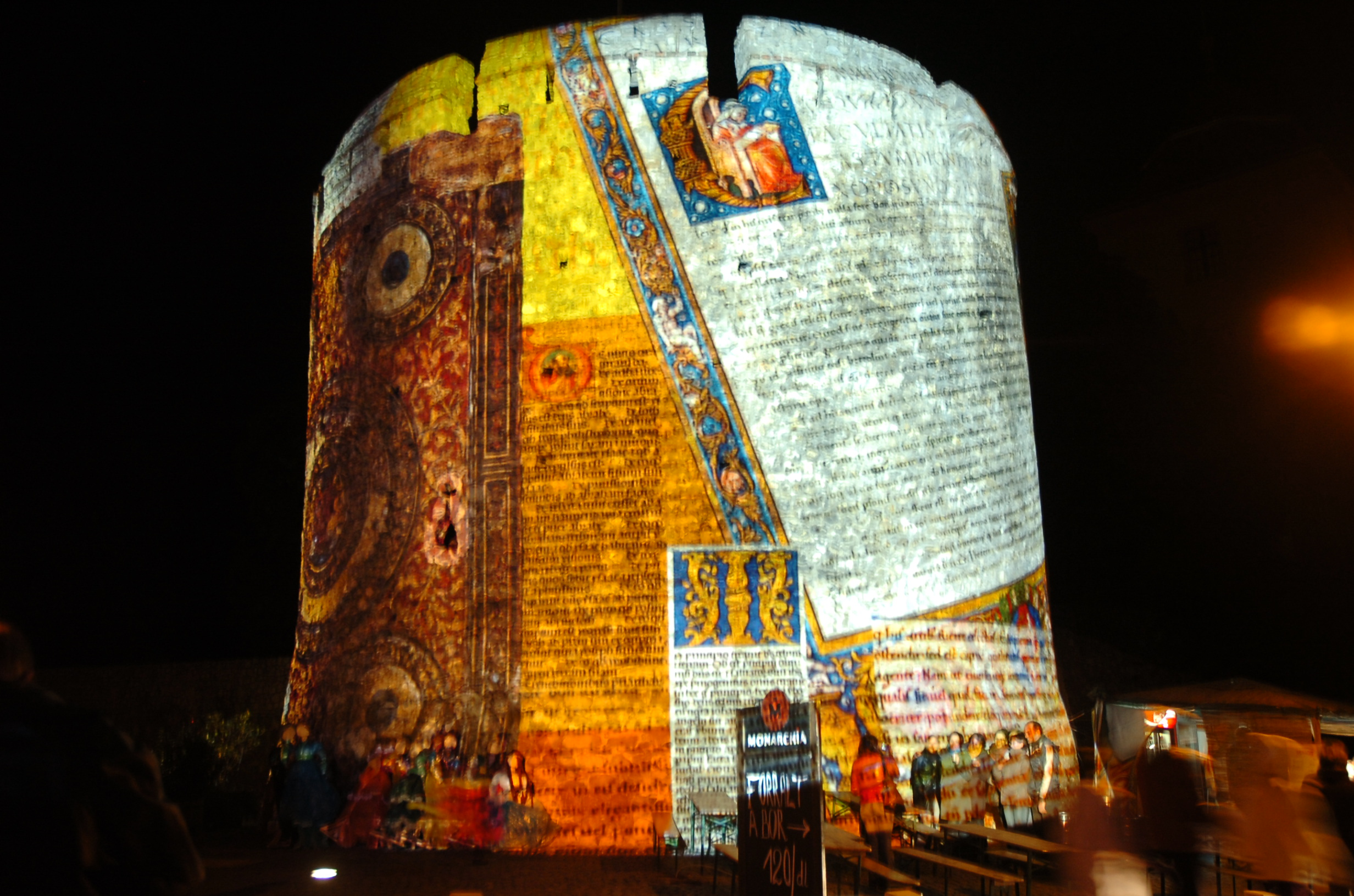 Colorful lights on the walls of the Barbakán.